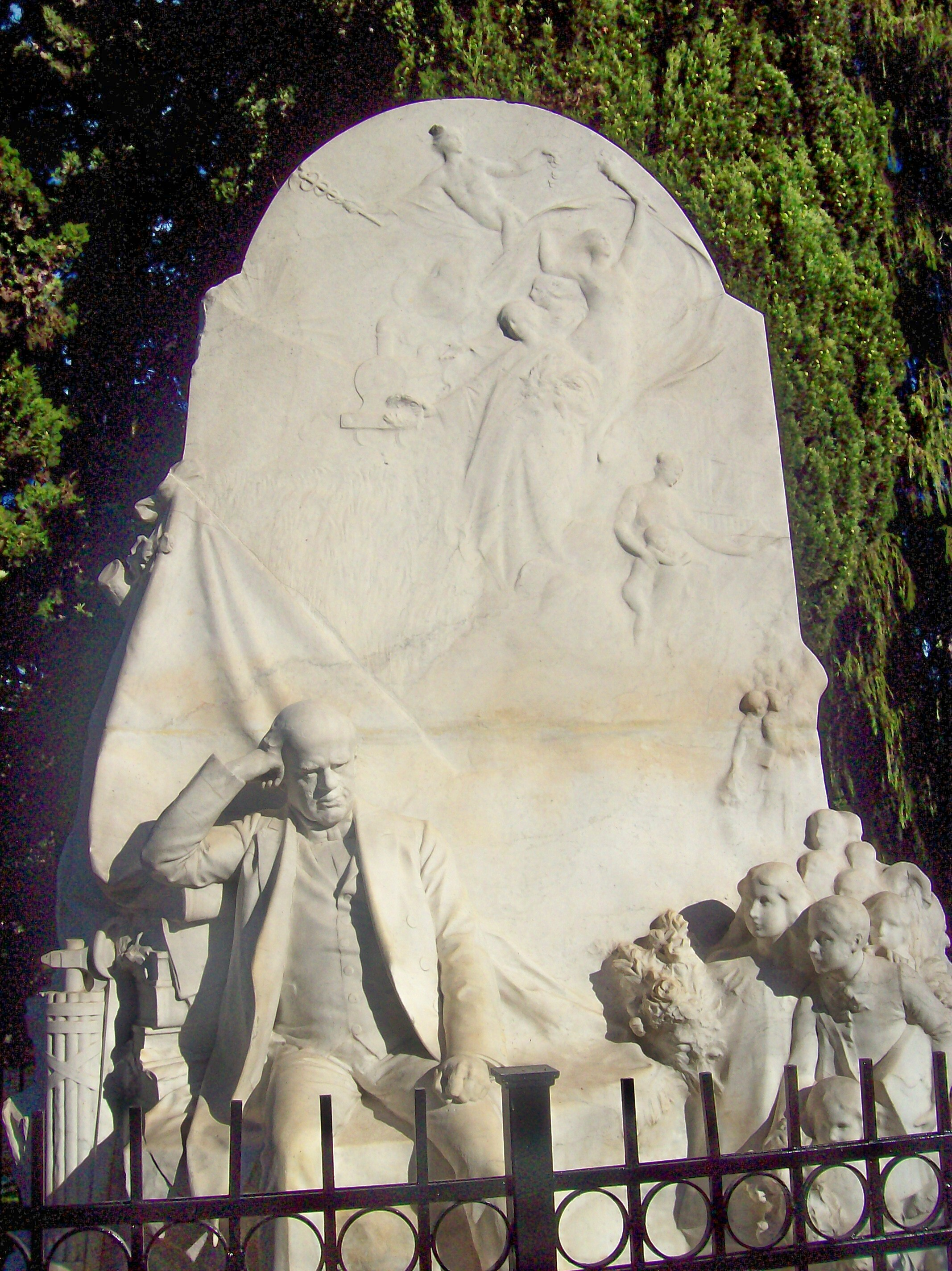 High Relief "Ofrenda Floral a Sarmiento"